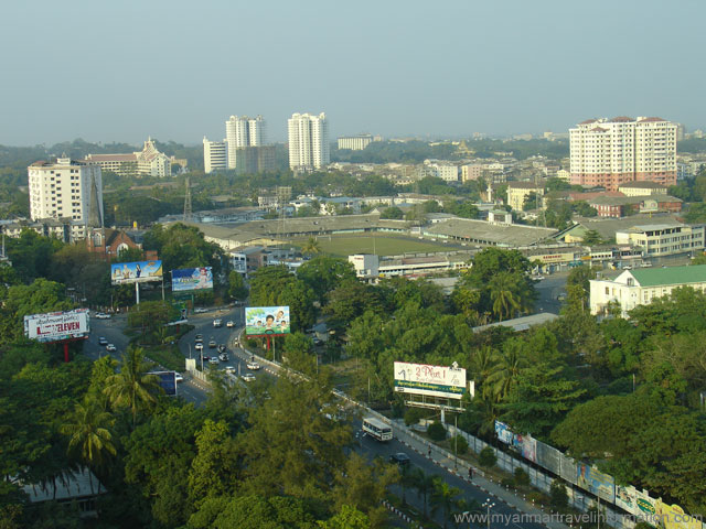 Downtown Yangon.